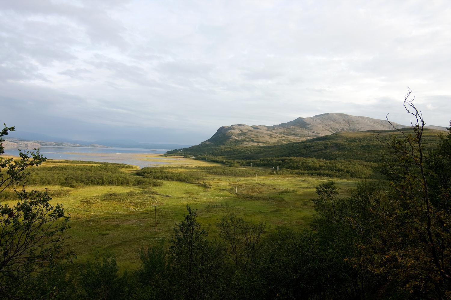 View towards Váldatgohppi and Kunsavárri mountain in Porsanger, Norway